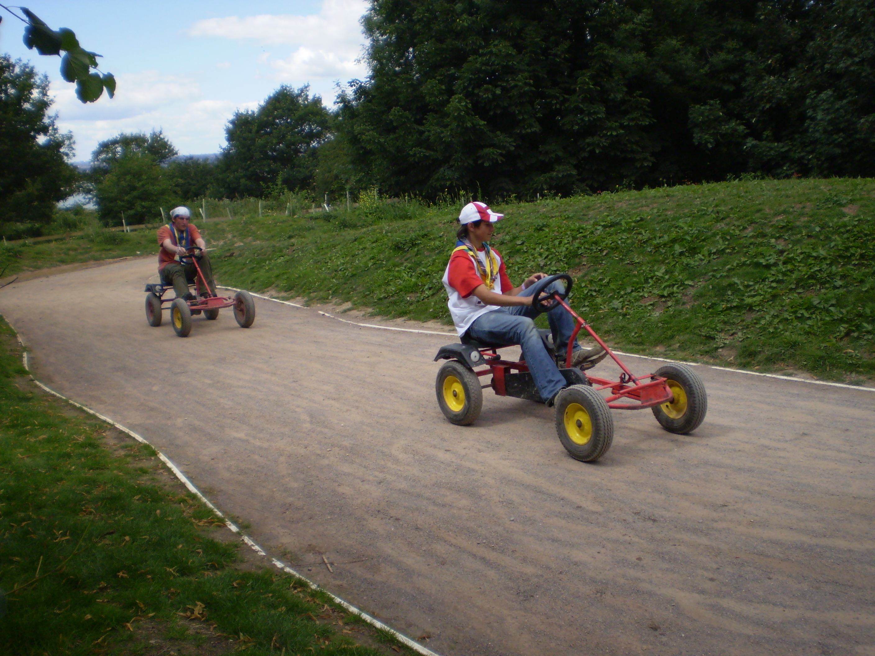 Gilwell Park Mountain/Motion activites at the 21st World Scout Jamboree